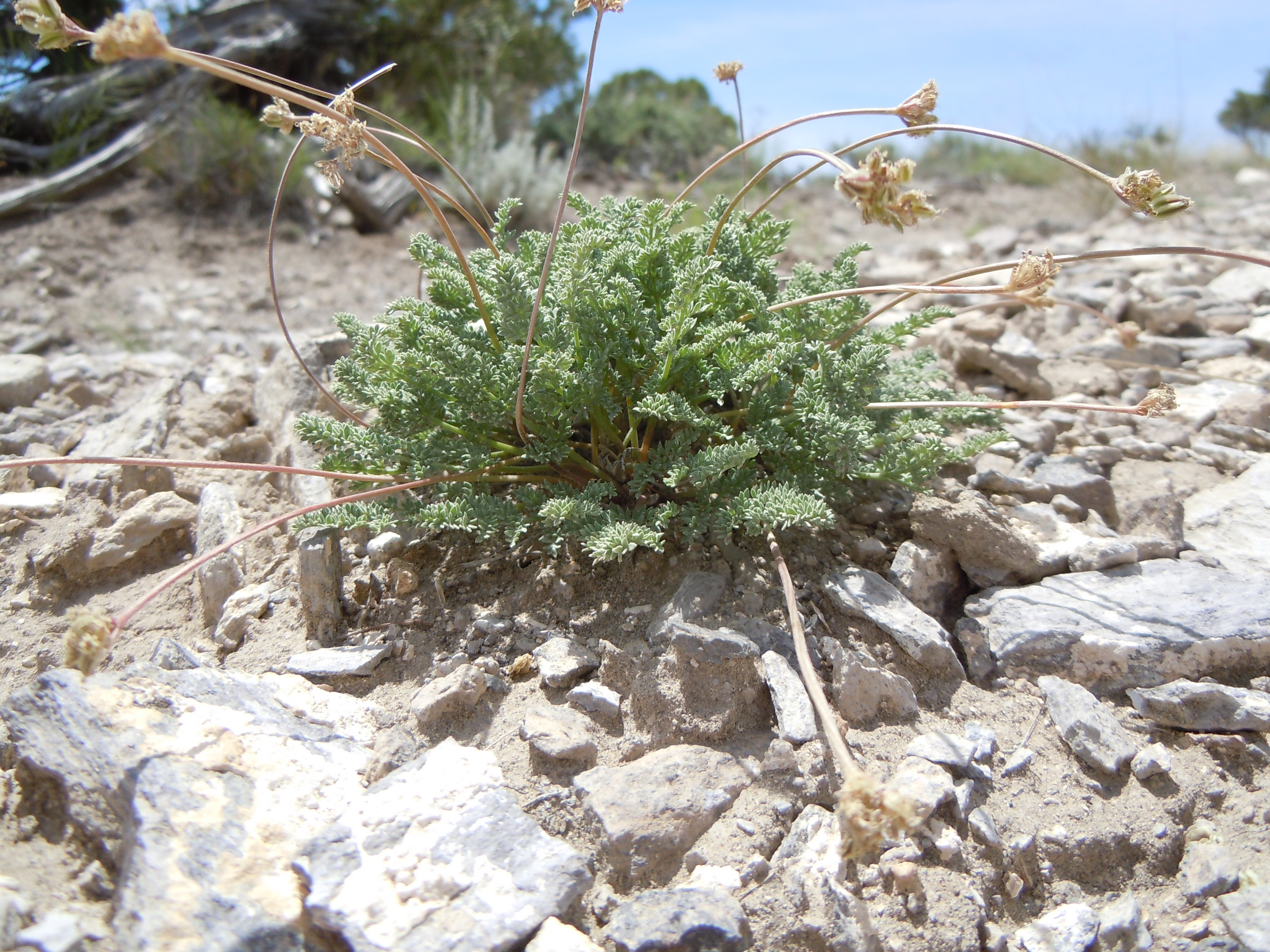 This species is found on the gravelly exposed uplands in this area.